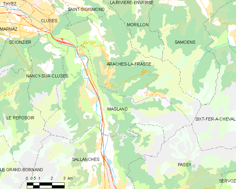 Map of French municipality Magland